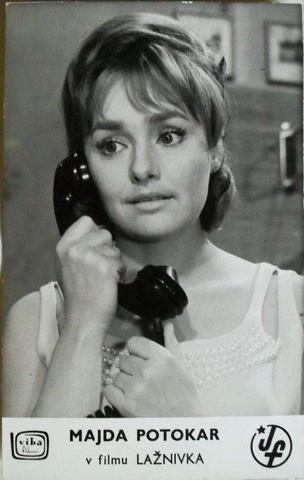 Postcard of Majda Potokar.